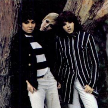 Trade ad for The Cake's single "Baby That's Me".To better adapt it to his respective Wikipedia article, the ad was cropped and cleaned in a graphics editing program. The original can be viewed at the source below.